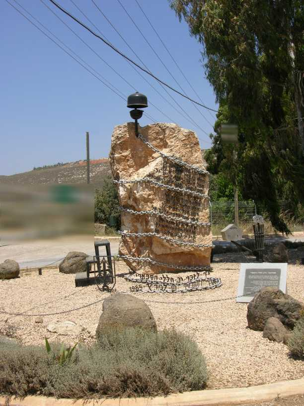 memorial to the Safari Disaster: on March 10, 1985, 12 soldiers, including conscripts and reserves, were killed